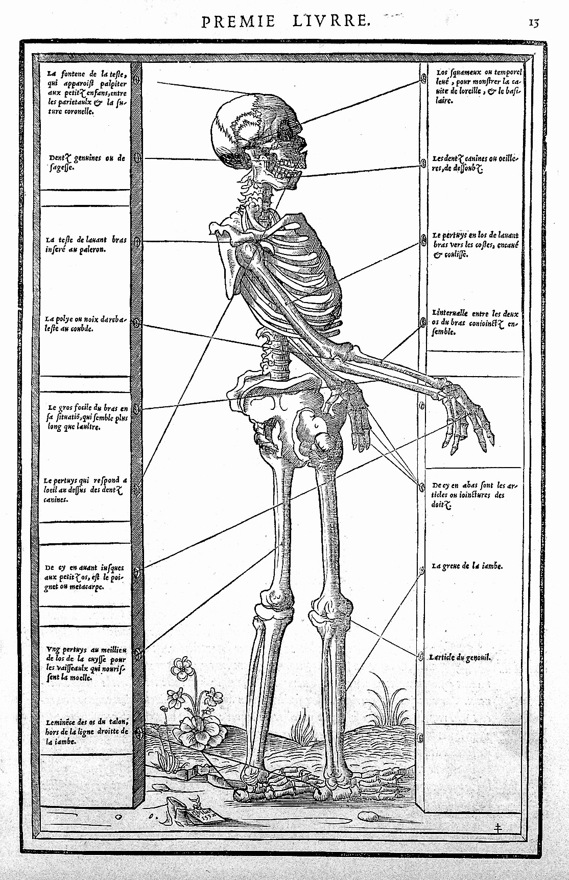 Woodcut: skeleton, side view, perhaps by Rivierius, for Carolus Stephanus. Rare Books Keywords: Stephanus, Carolus; Stephanus Rivierius